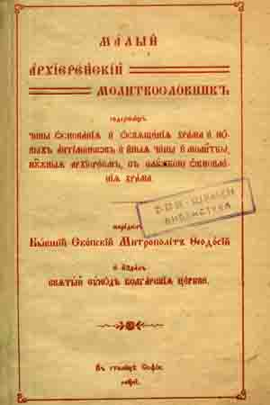 Bulgarian: Малый архиерейский молитвословник / Наредил Скопский митрополит Теодосий .София : Св. Синод на Бълг. Църква, 1911. Small breviary from Thodosi Skopski, Sofia, Holy Synod from Bulgarain Exarchate, 1911.